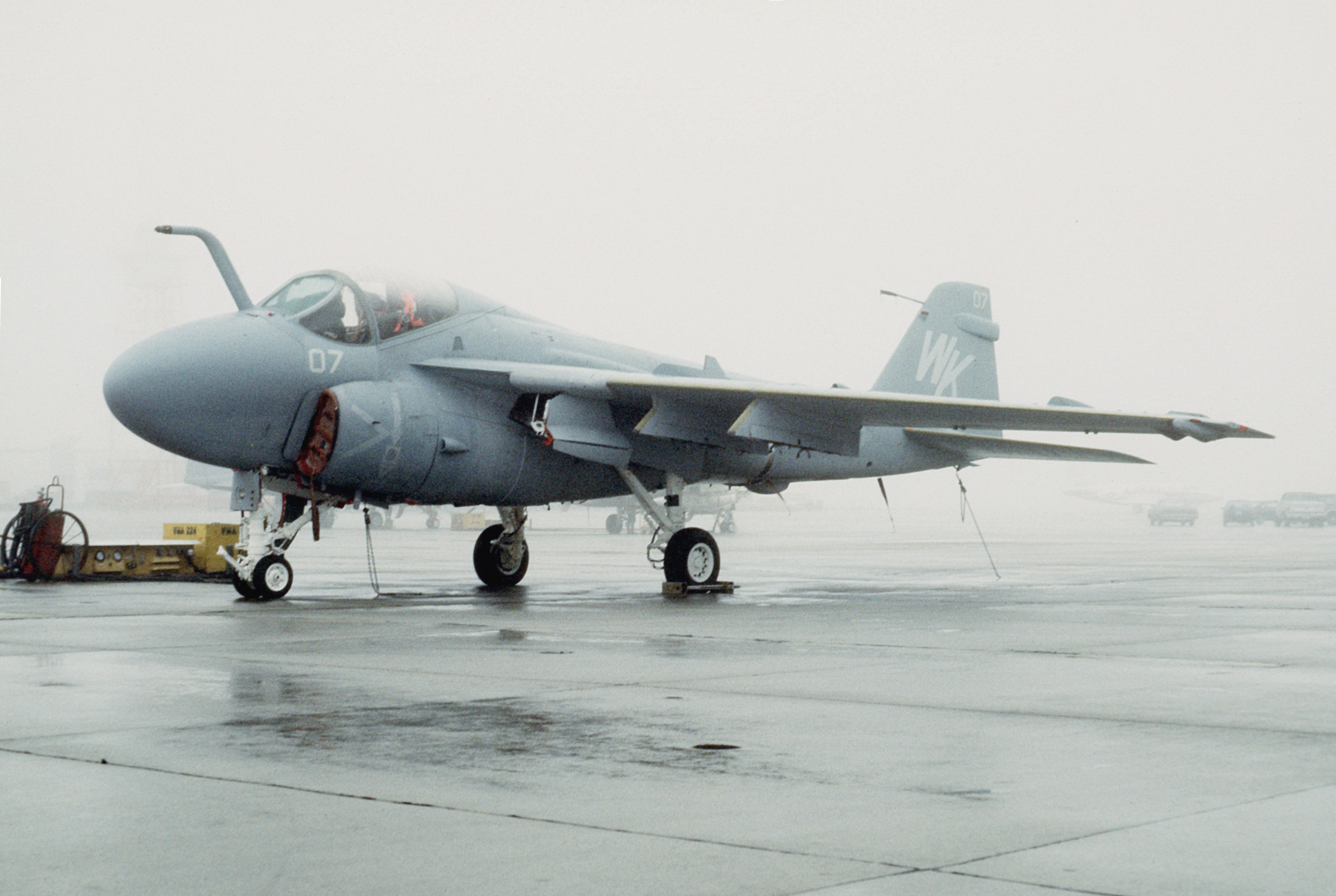 A U.S. Marine Corps Grumman A-6E Intruder from Marine all-weather attack squadron VMA(AW)-224 Fighting Bengals on the flight line at Marine Corps Air Station Cherry Point, North Carolina (USA), in 1984.